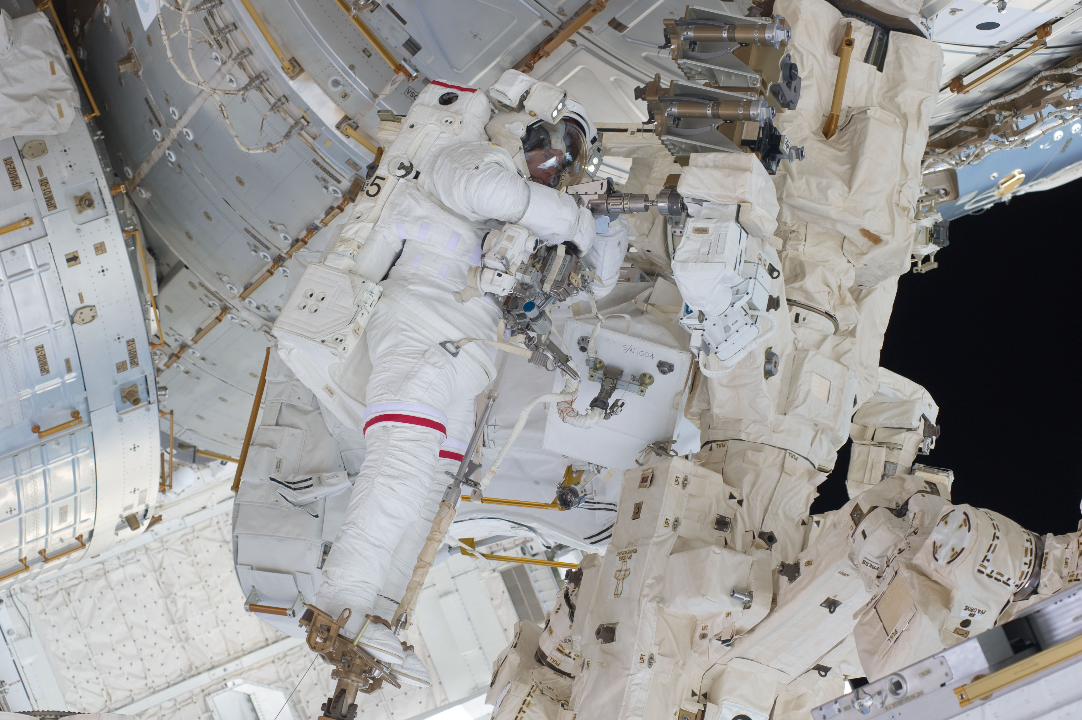 Anchored to a Canadarm2 mobile foot restraint, NASA astronaut Steve Bowen, STS-133 mission specialist, participates in the mission's second session of extravehicular activity (EVA) as construction and maintenance continue on the International Space Station. During the six-hour, 14-minute spacewalk, Bowen and astronaut Alvin Drew (out of frame), mission specialist, tackled a variety of tasks, including venting into space some remaining ammonia from a failed pump module they moved during the mission's first spacewalk.